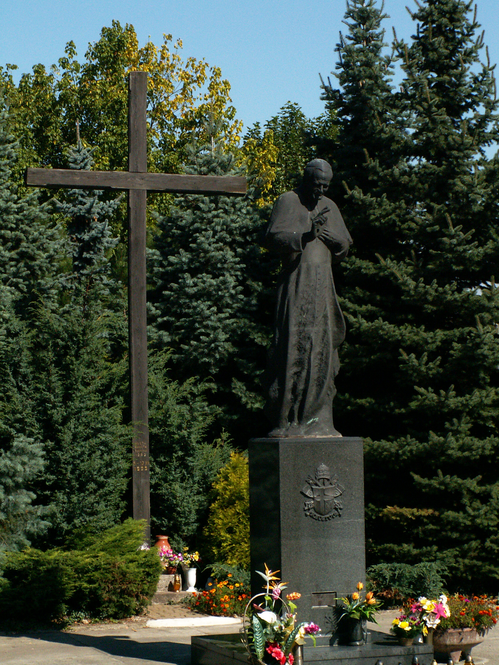 Pope John Paul II monument, Mistrzejowice-os. Tysiaclecia, Nowa Huta, Krakow, Poland